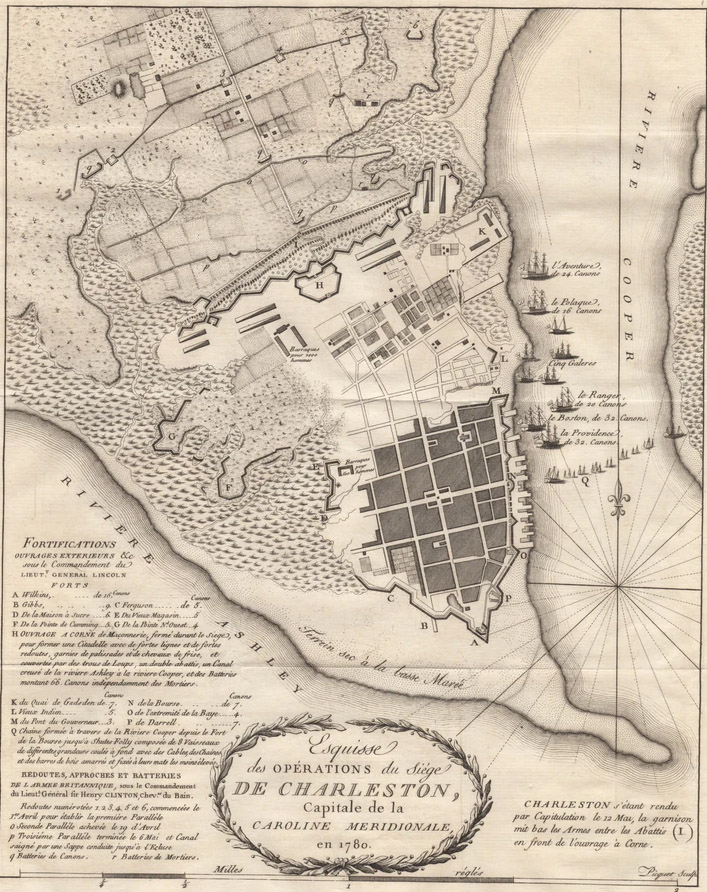 This rare revolutionary war map shows the Siege of Charleston in 1780. From David Ramsey's "The History of the Revolution of South Carolina".